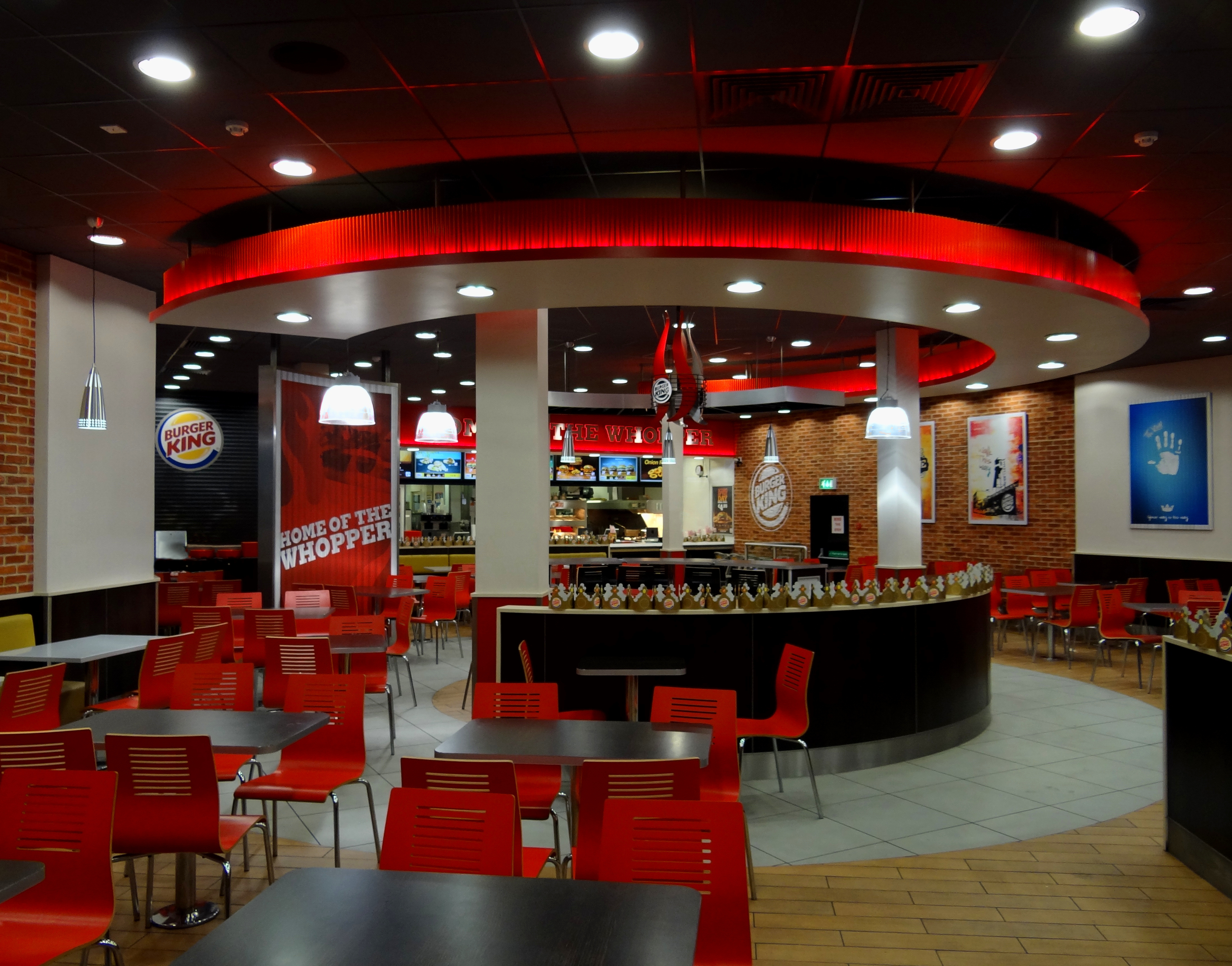 The interior of the Burger King in St Patrick's Street in downtown Cork, Ireland.